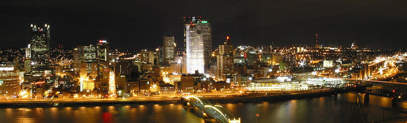 Pittsburgh Skyline Panorama